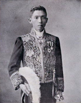 Magazine cover photo of Uichi Torikata (鳥潟右一).